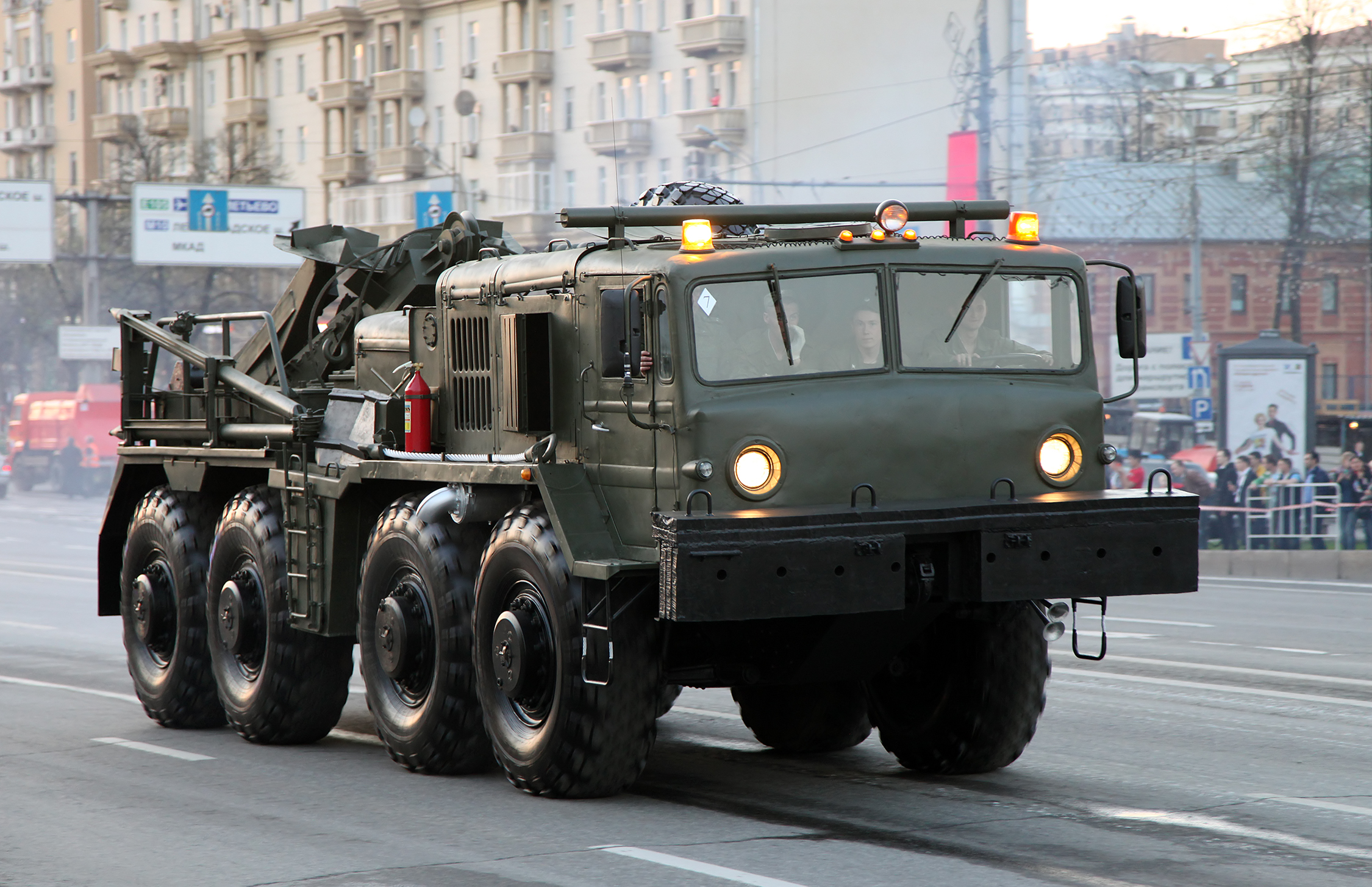 Wheeled evacuation carrier KET-T